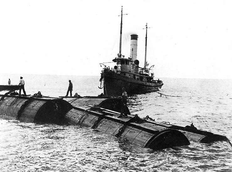 Salvage of USS F-4 (SS-23), April-August 1915. All salvage pontoons on the surface, off Honolulu, Hawaii, circa 29 August 1915, with preparations under way to tow the sunken submarine into Honolulu harbor. The tug at right is probably USS Navajo.